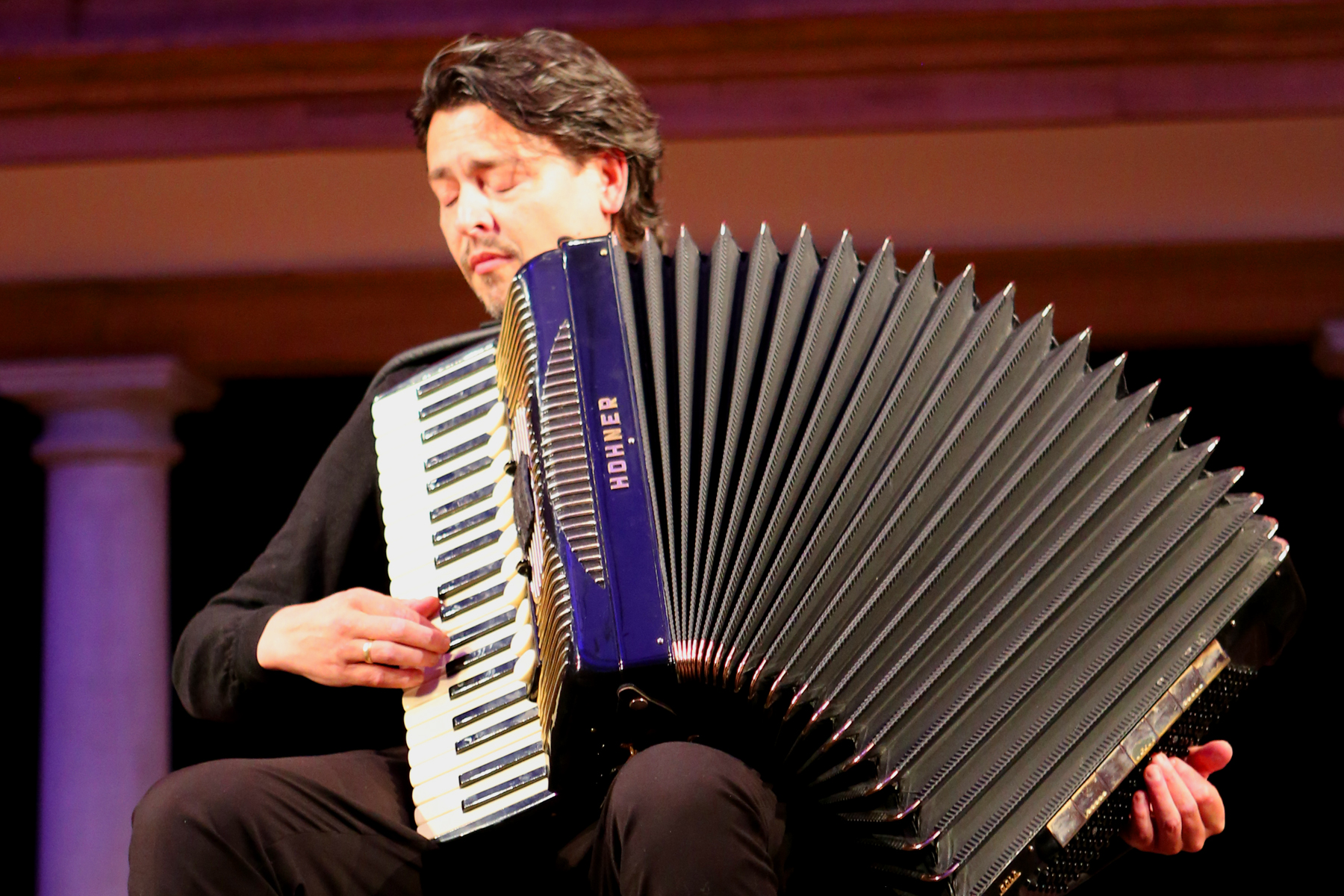 Goran Kovacevic Accordion - Composer and Artist